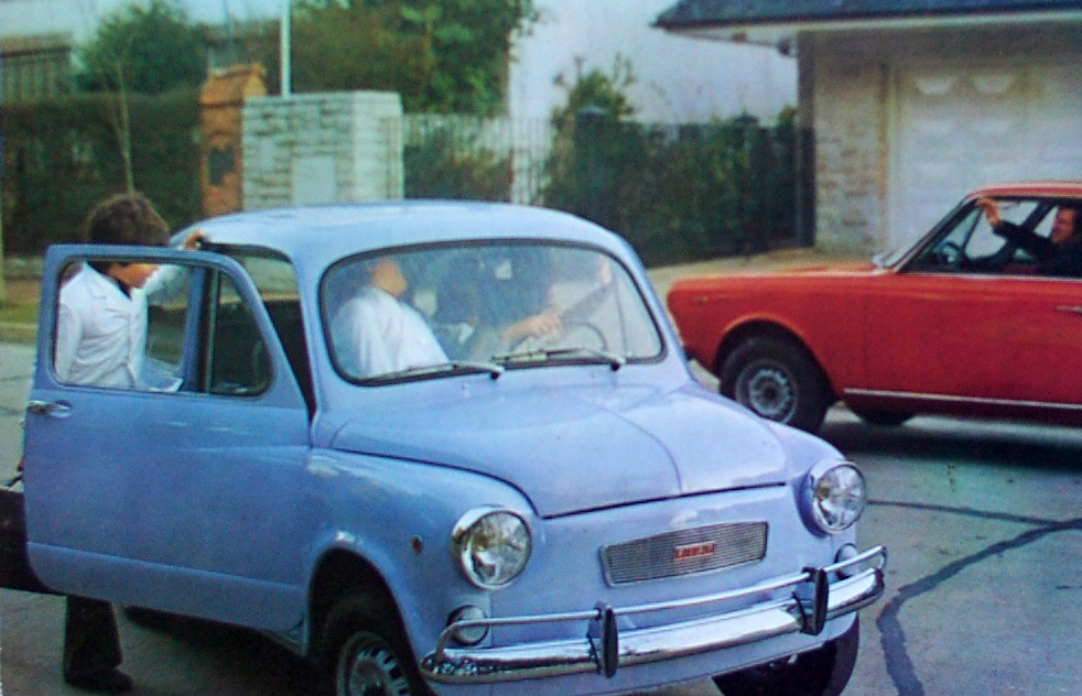 Fiat 600 built in Argentina from 1960–1982. Original description: "600 was made in Argentina well after production ended in Europe. This catalog is from about 1980. I don't know what Fiat the red car is, but it is probably unique to South America. Broke my good camera and took these with an old digital, not so good with focus at this distance." Fiat 600, built in Argentina 1960-1982